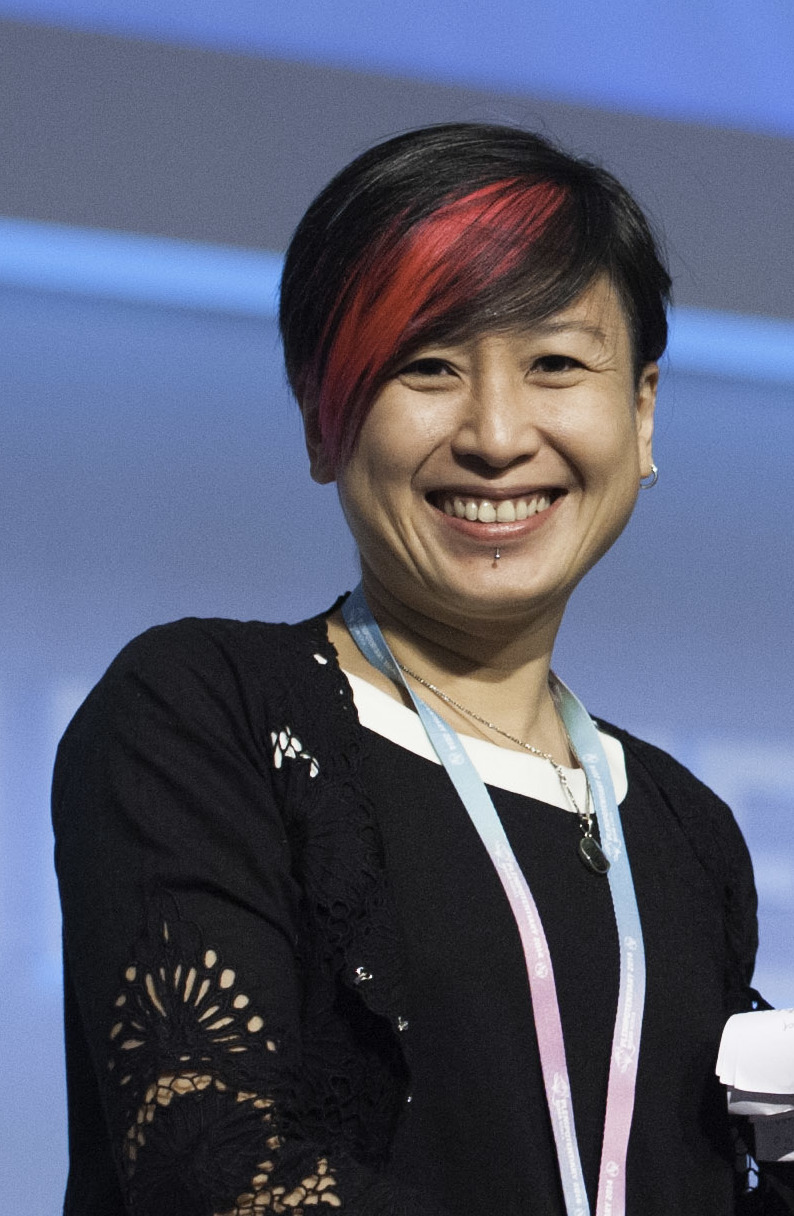 Houlin Zhao, ITU Deputy Secretary General, presents Jac SM Kee, Association for Progressive Communications, with a 2014 GEM-Tech Award BEXCO Conference Cetre, Busan, Republic of Korea © ITU/C. Montesano Casillas